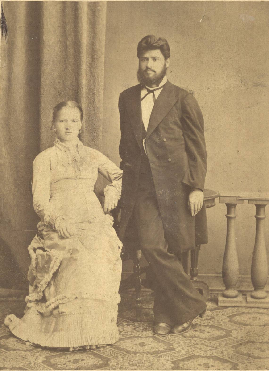 Portrait of Bulgarian revolutionary Radi Ivanov with his wife, Berta Brykar, 1878